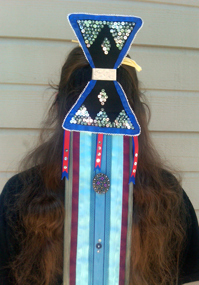 Caddo girl modeling a dush-toh, the traditional Caddo ornamental hairpiece for dancing, made by Tracy Burrows (Caddo-Delaware), Oklahoma. The headboard is wood, covered with black cloth, and held in place with a metal band. The piece is decorated with seed beads, sequins, ribbons, and an ornamental pin.